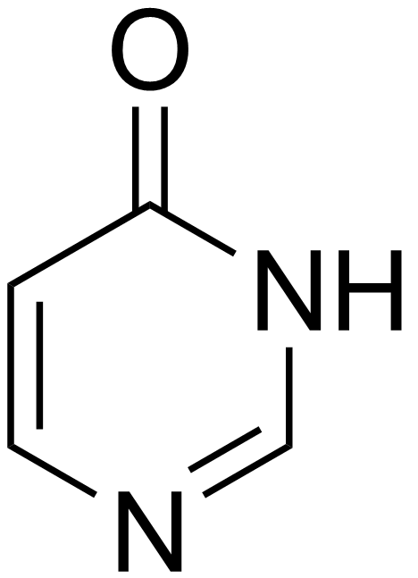 chemical structure of 4-pyrimidone